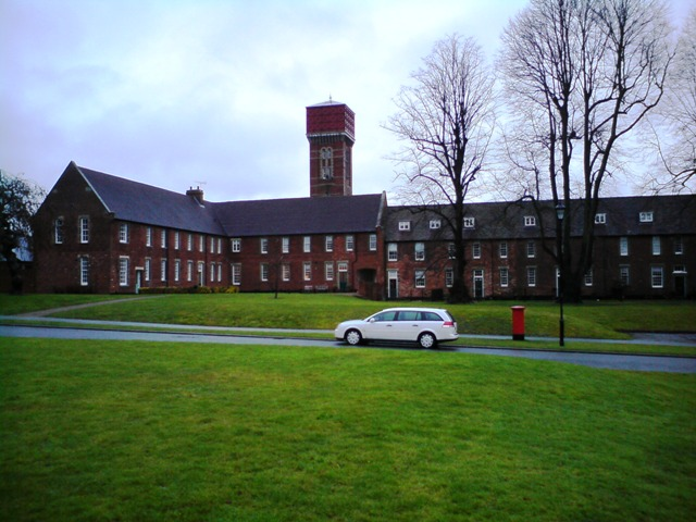 St Audry's Hospital Buildings, near to Melton, Suffolk, Great Britain. Former asylum buildings which have been converted into residential accommodation. "In 1774 a local Act established the Loes and Wilford Hundred Incorporation at Melton. The House of Industry (workhouse) operated until 1826. From 1826 the building became the Suffolk County Asylum for Pauper Lunatics. Much altered during the 19th and early 20th centuries, in 1916 the asylum became known as St Audry's Hospital."